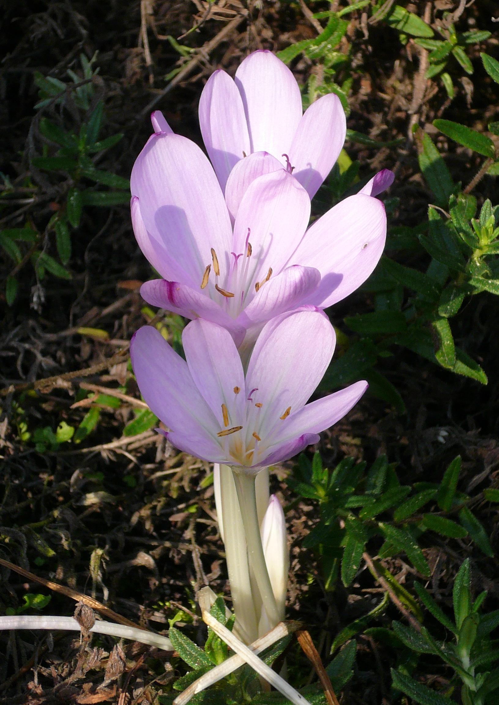 file:Colchicum lusitanum.jpg cropped